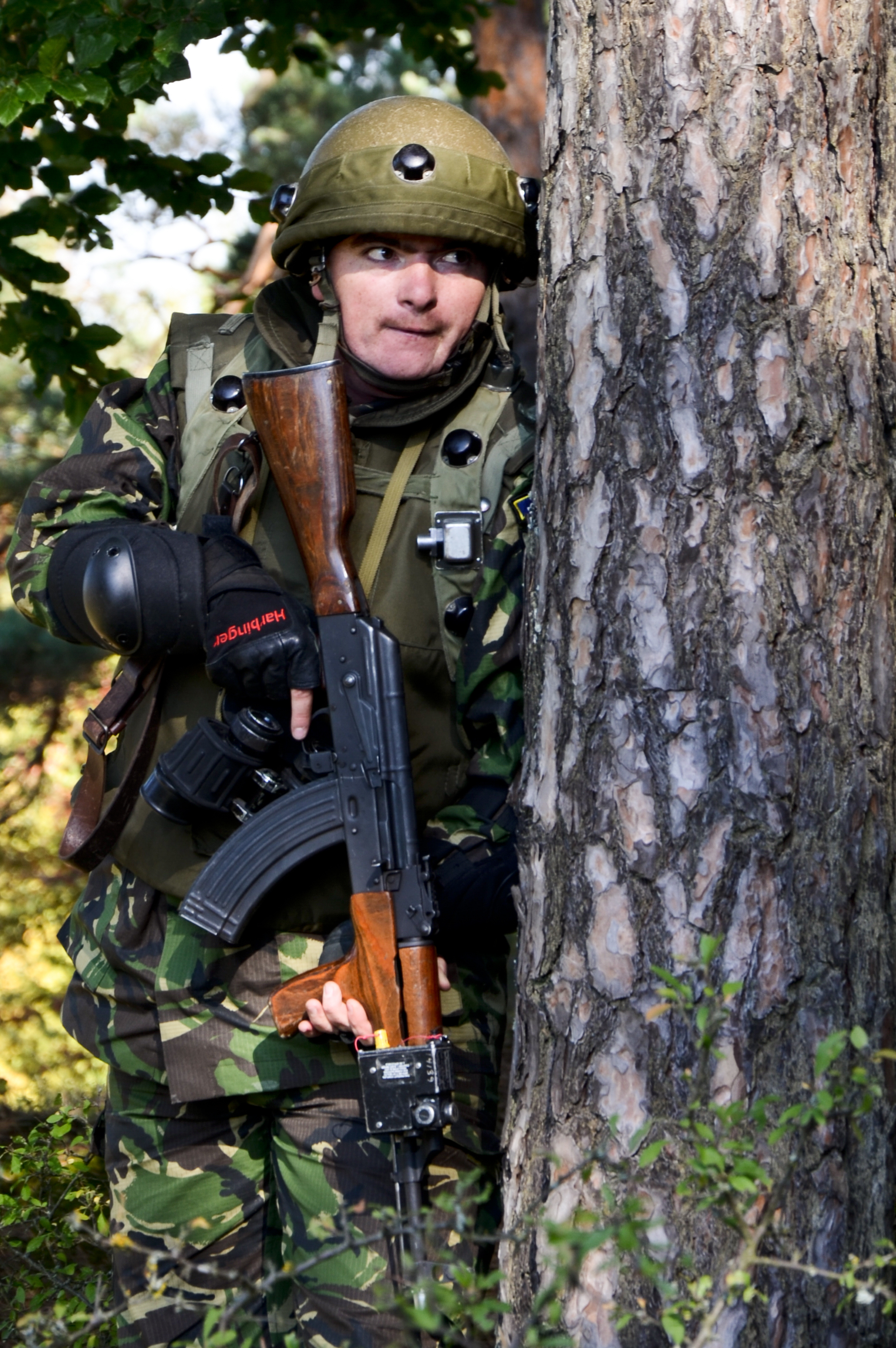 A Romanian army soldier uses a tree as cover during a military advisory team training exercise at the Joint Multinational Readiness Center in Hohenfels, Germany, Sept. 20, 2012. This exercise is designed to replicate the Afghanistan operational in order to prepare MATs and police advisory teams for counterinsurgency operations with the ability to train, advise and enable the Afghanistan National Army and the Afghanistan National Police.